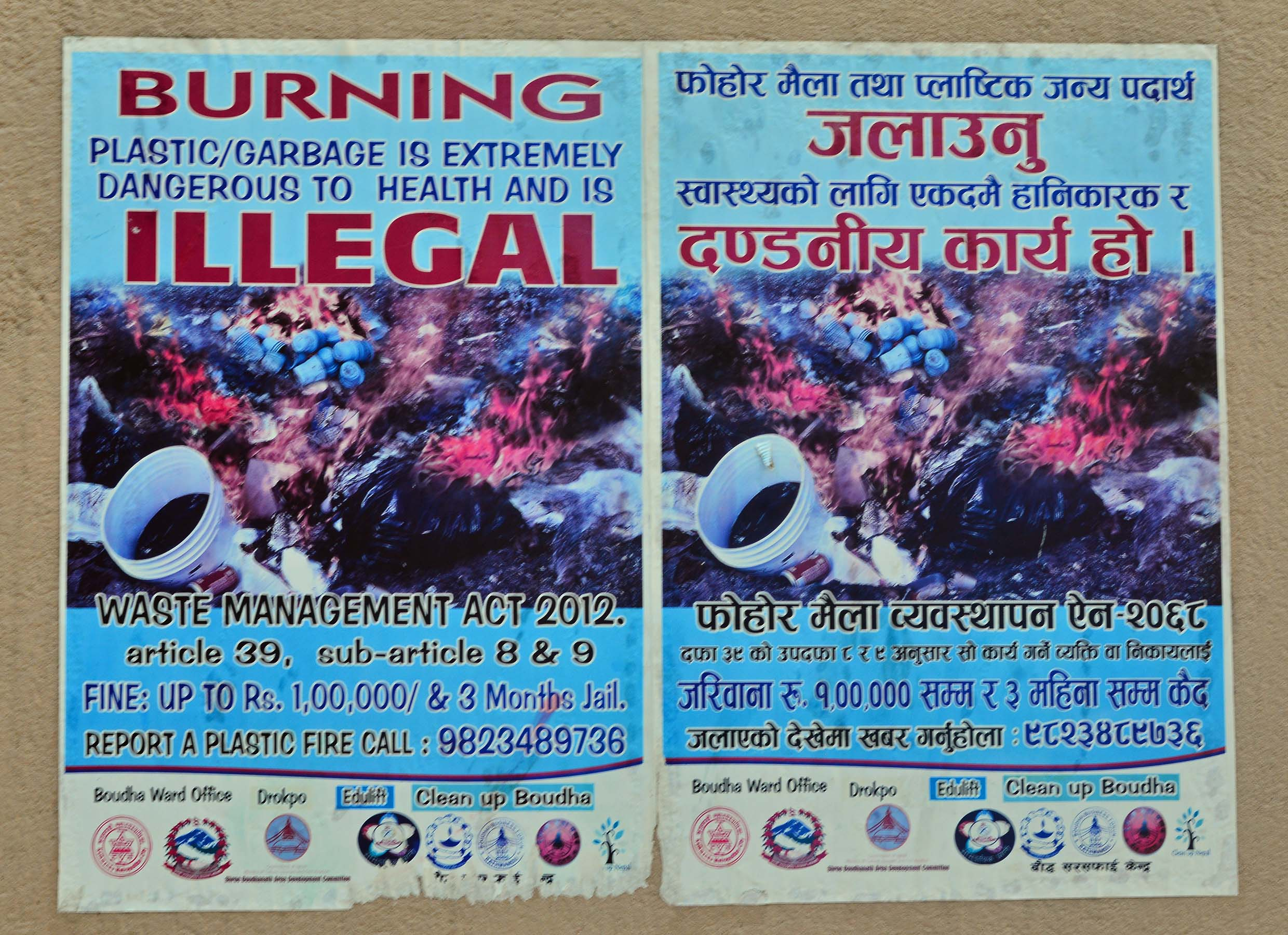 Signs in English and Nepali warning against burning plastic garbage.